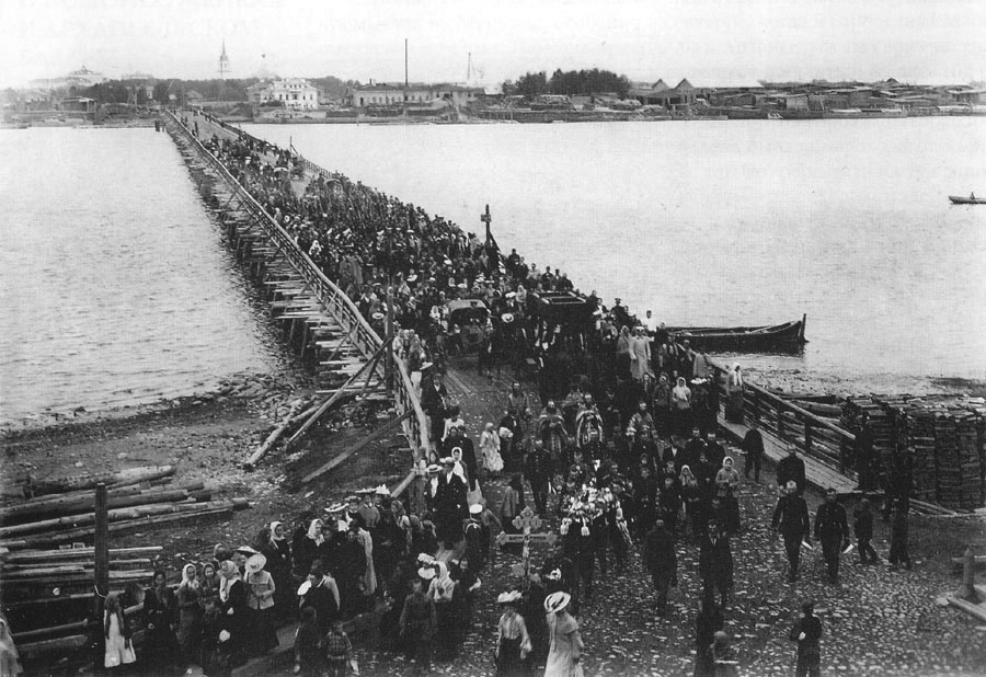 Funeral procession on the bridge in Arkhangelsk (1907) Flickr data on 2011-08-13 Tags: Funeral, Arkhangelsk, Public Domain License: CC BY-SA 2.0 User: paukrus Ruslan